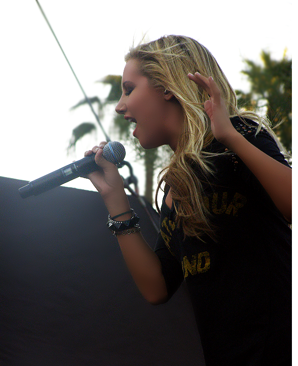 Ashley Tisdale performing at the opening for the first Microsoft Store in Scottsdale, Arizona.